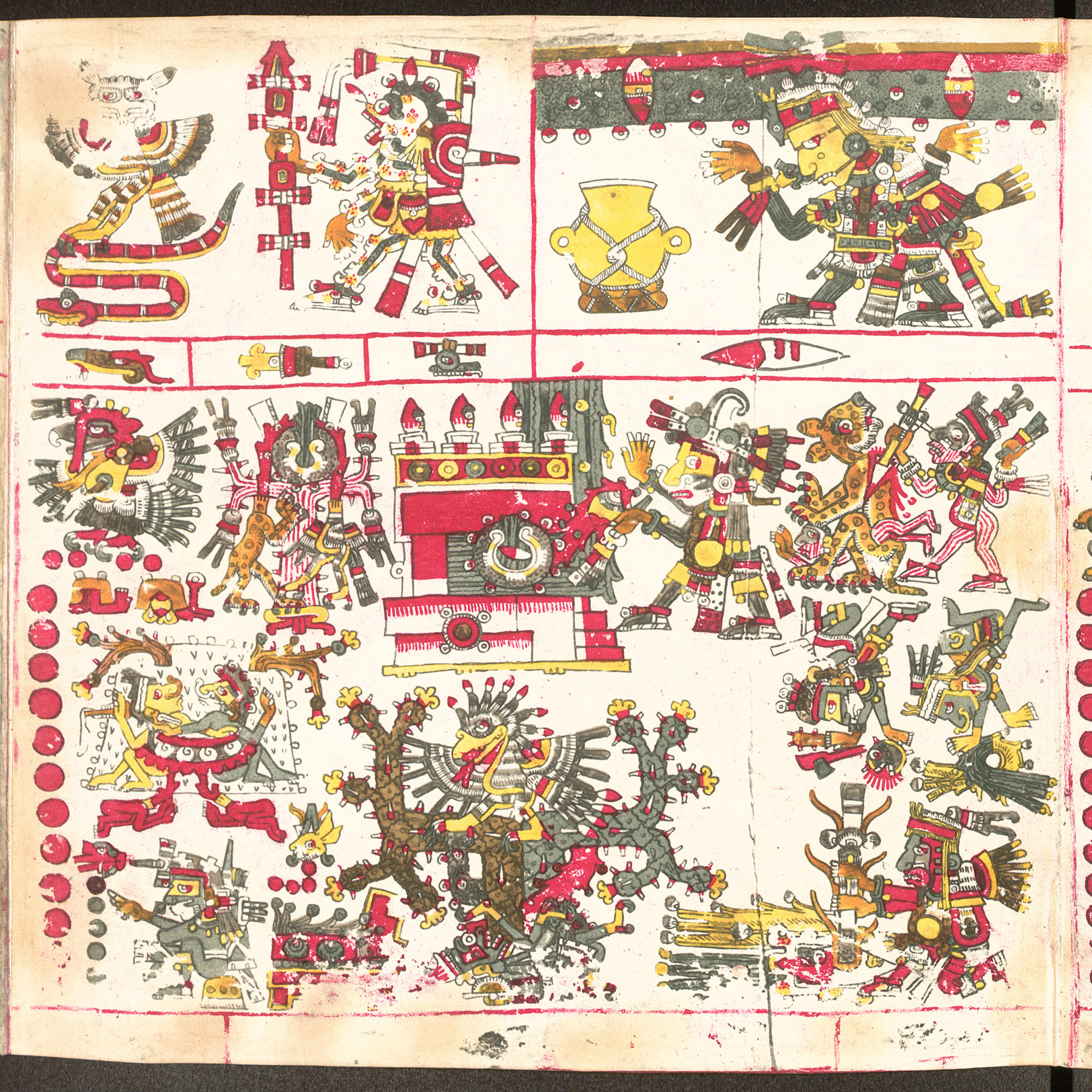 Page 50 of the Codex Borgia.